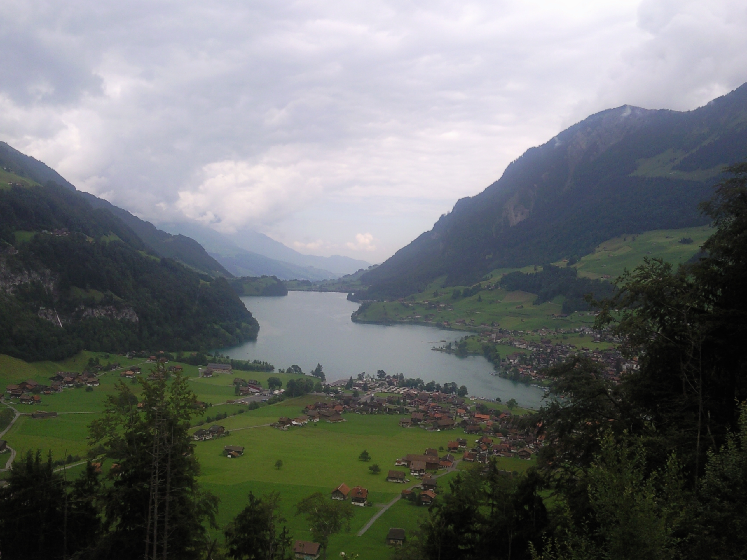 a lake in Switzerland